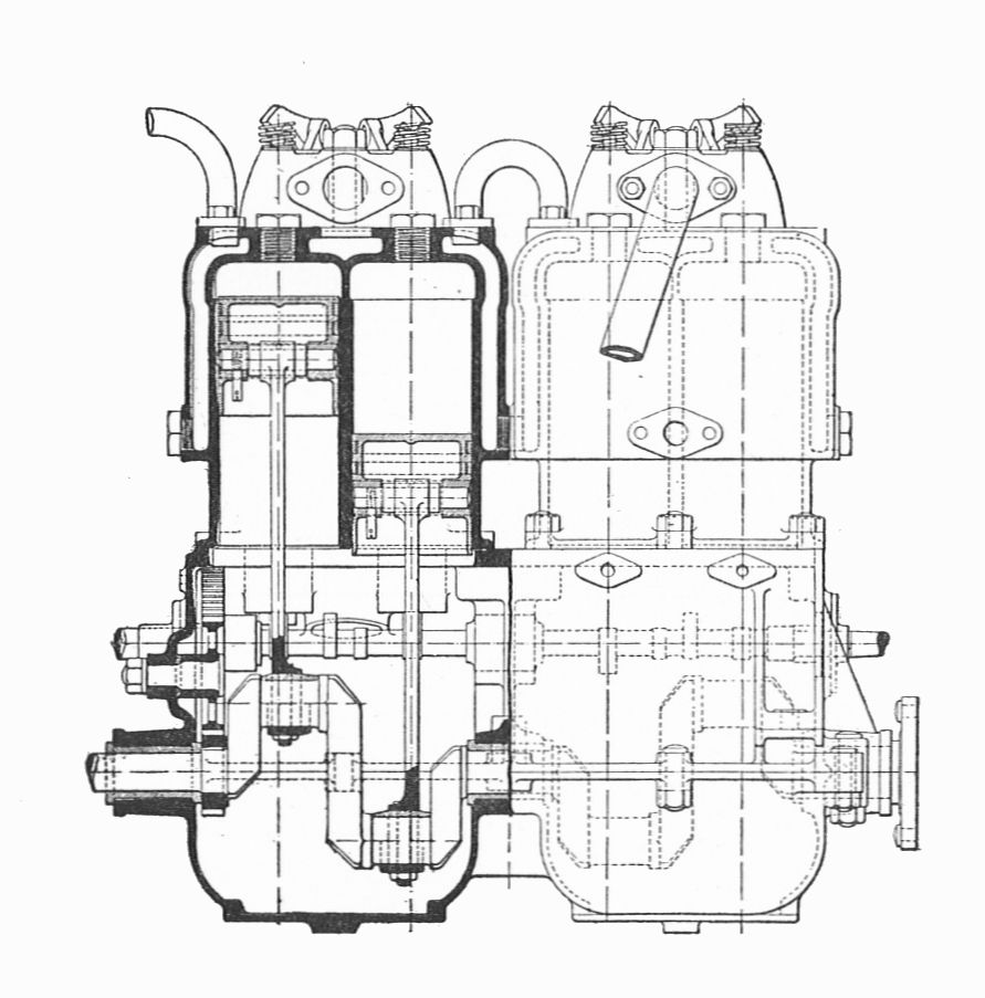 Napier petrol boat engine, side section (Rankin Kennedy, Modern Engines, Vol III).jpgFig. 180